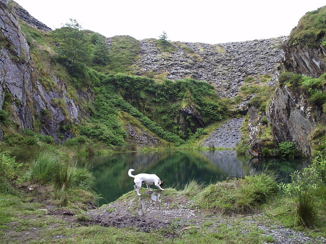 Secret pool in Rosebush quarry. One of the pits in this abandoned slate quarry was allowed to fill with water in order to drive a turbine below, via a pipeline and culvert. Now it remains as a cool, clear and shadowy place among these dramatic surroundings.